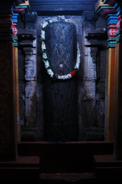 The Lingam or Phallic symbol was rescued from the ruble of the original temple destroyed by the Portuguese colonial officers in 1595 (?) and installed in the outer wall of the newly renovated temple in the 1900s. Hence apart from possibly the foundation this is the only part of the temple that predates the arrival of Europeans in Sri Lanka in 1505.